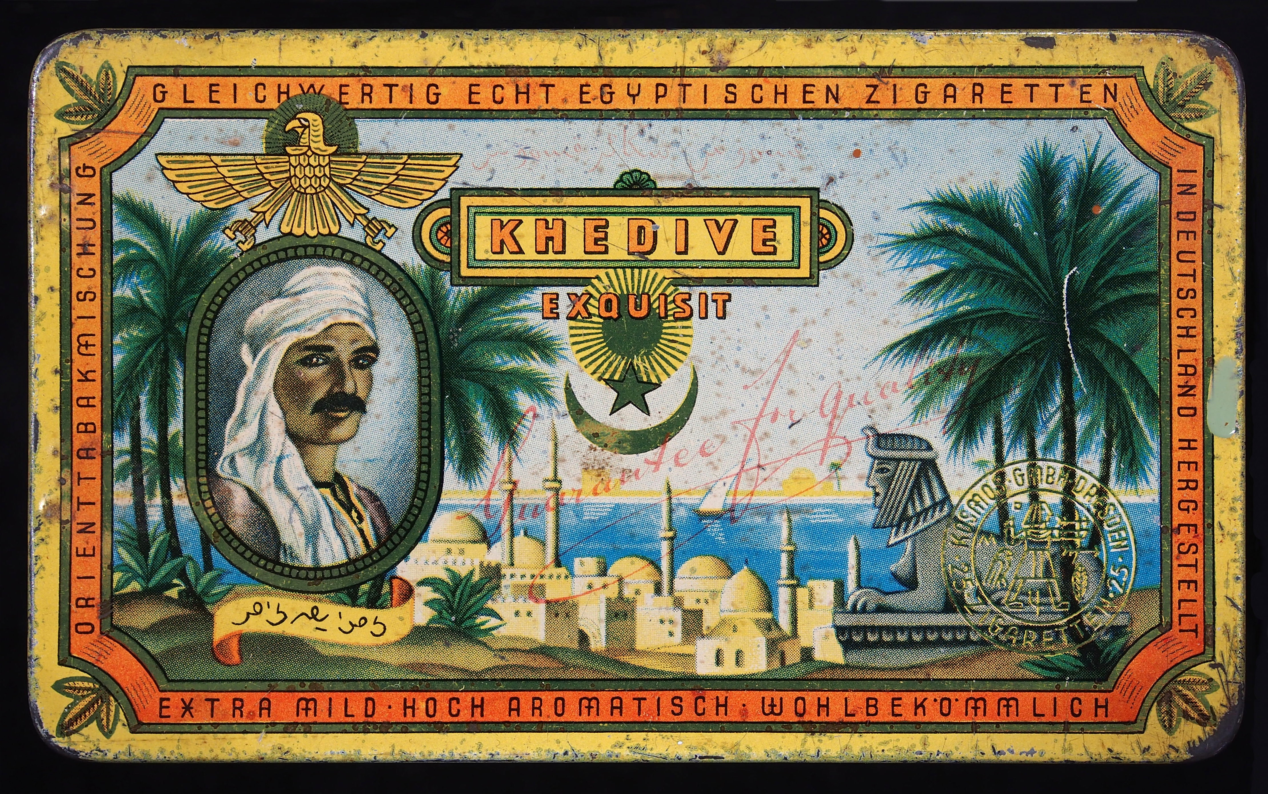 Very old packaging of a product that is not produced and not sold any more.